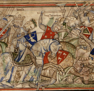 The Battle of Stamford Bridge and the death of Harald Hardrada (wielding a battleaxe).